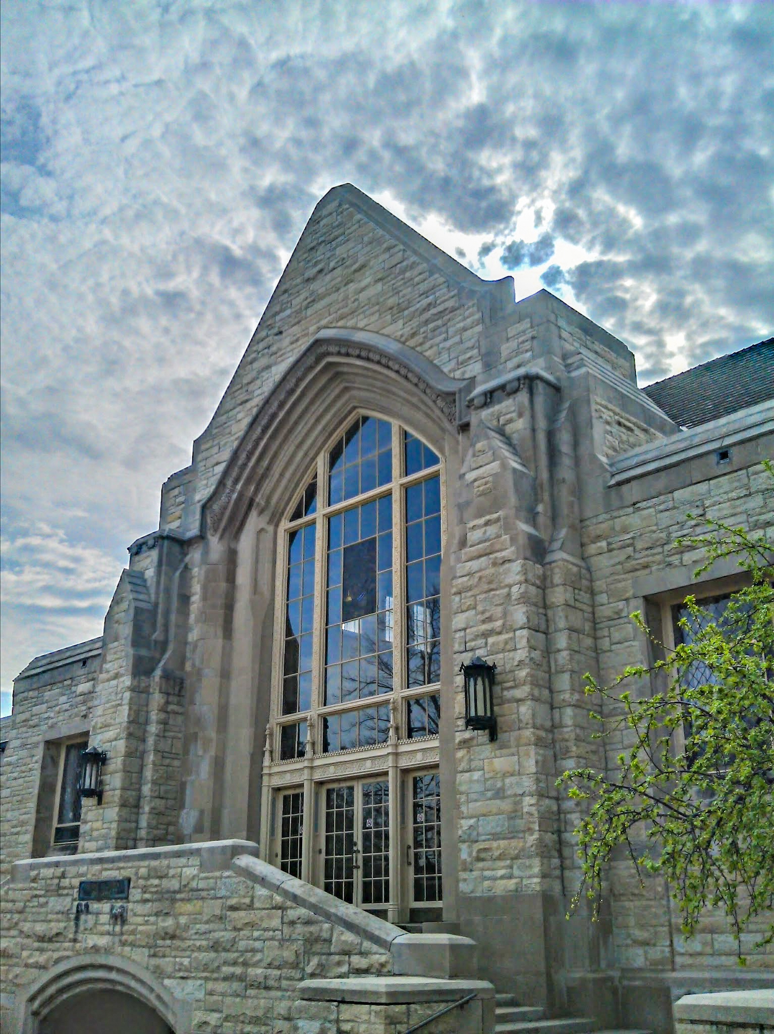 Eastern facade of Northern Illinois University's College of Law at Swen Parson Hall.